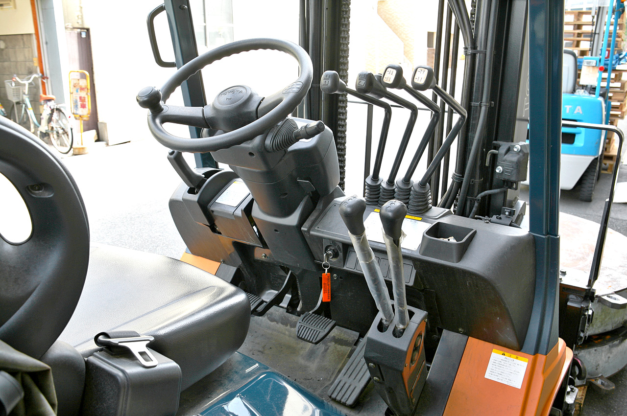 An operator's seat of forklift. Toyota L&F Geneo 25, 2.5t class gasoline engine compact type ( 7FGKL25 ).